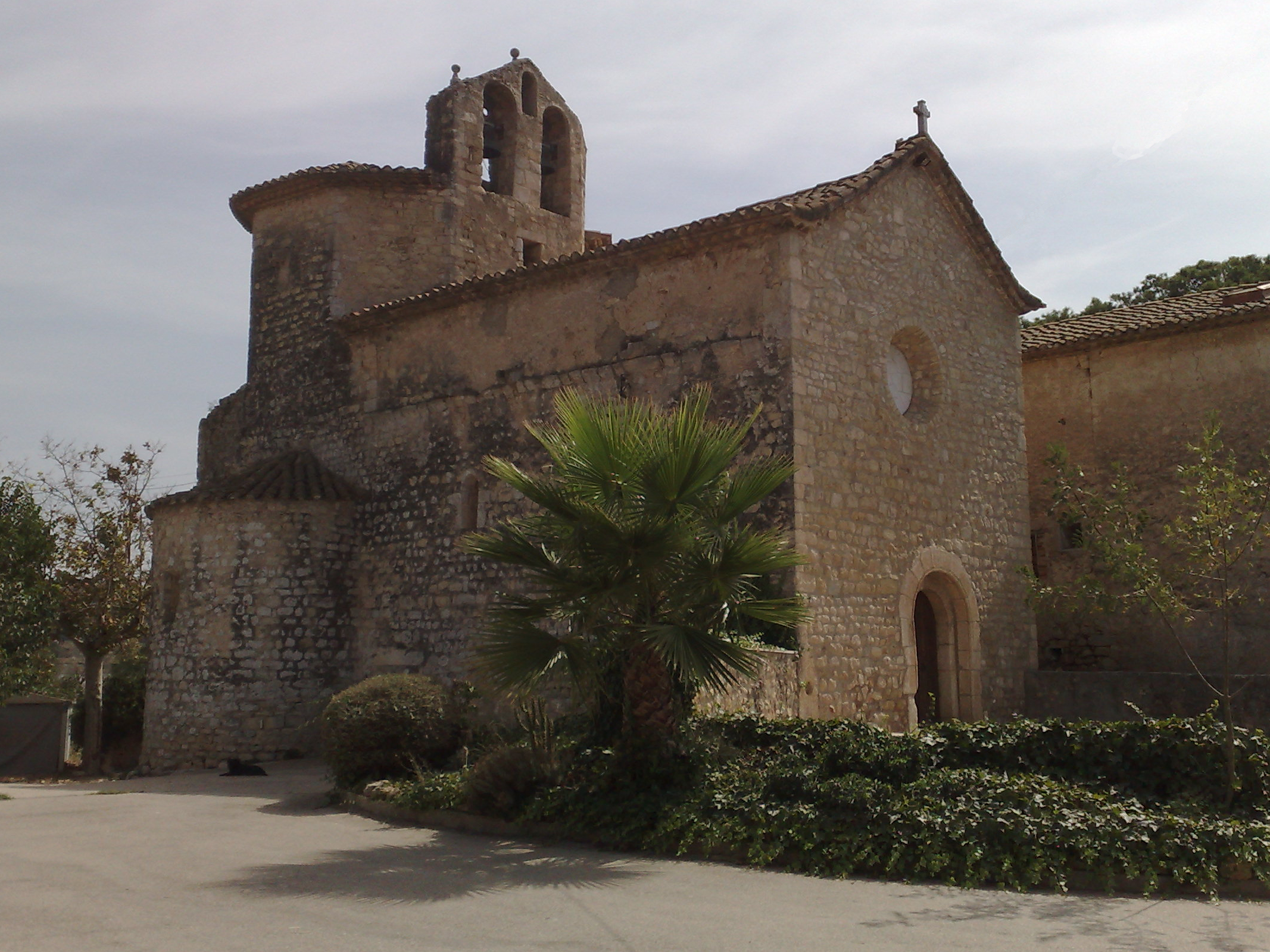 Sant Esteve, Romanic church (IX century) of Castellet i la Gornal (Alt Penedès).